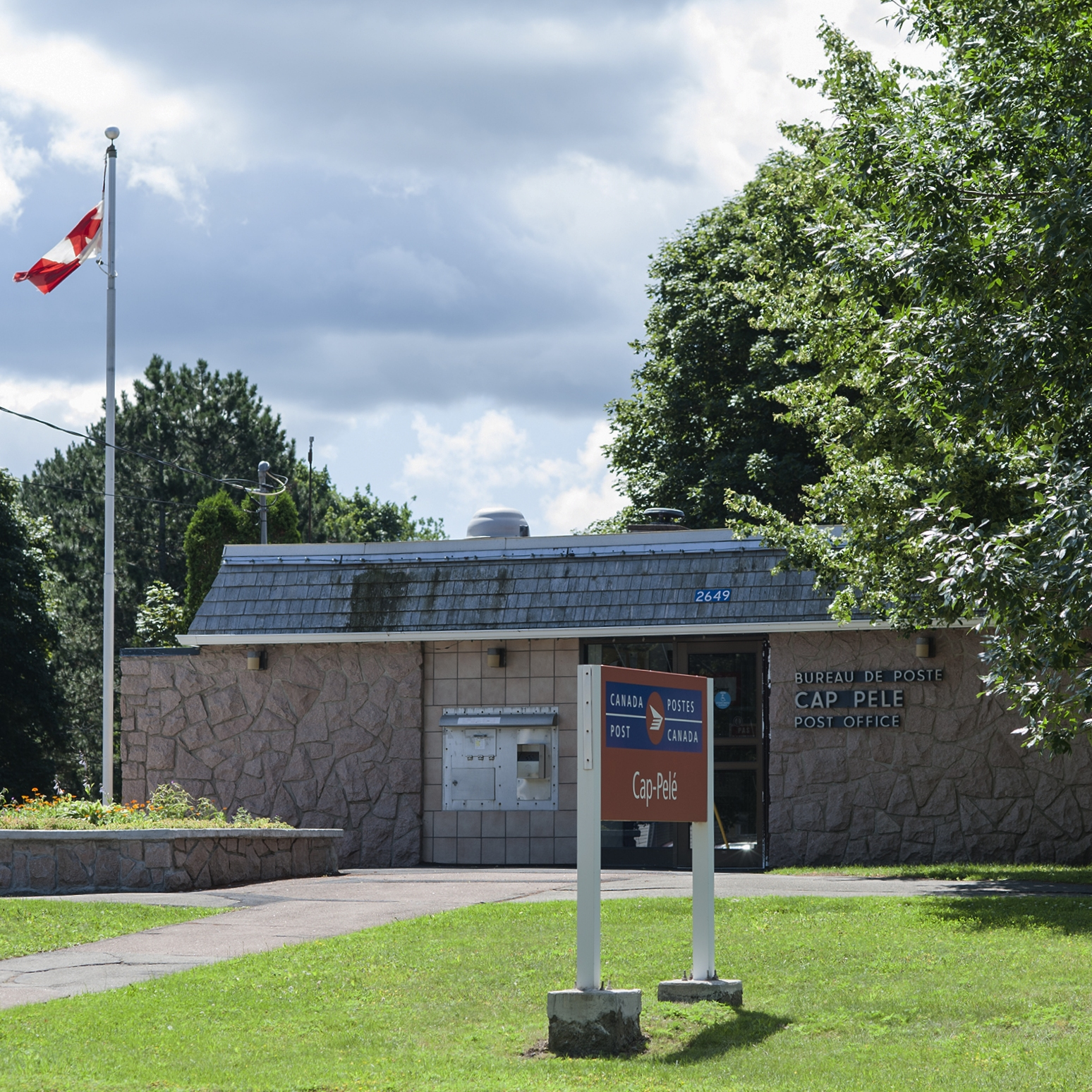 Federal post office in Cap Pele (Cape Bald) Westmorland County, New Brunswick, Canada